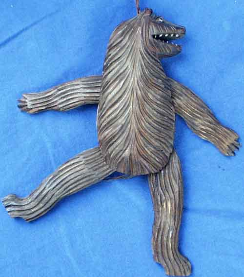 Woodcarved bear from Val Gardena mid 19th century.